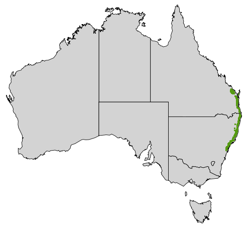 Self-made map derived from official distribution of Banksia aemula - George, Alex (1999) "Banksia " in Wilson, Annette (ed.) , ed. Flora of Australia: Volume 17B: Proteaceae 3: Hakea to Dryandra, CSIRO Publishing / Australian Biological Resources Study, p. p. 377 ISBN: 0-643-06454-0.